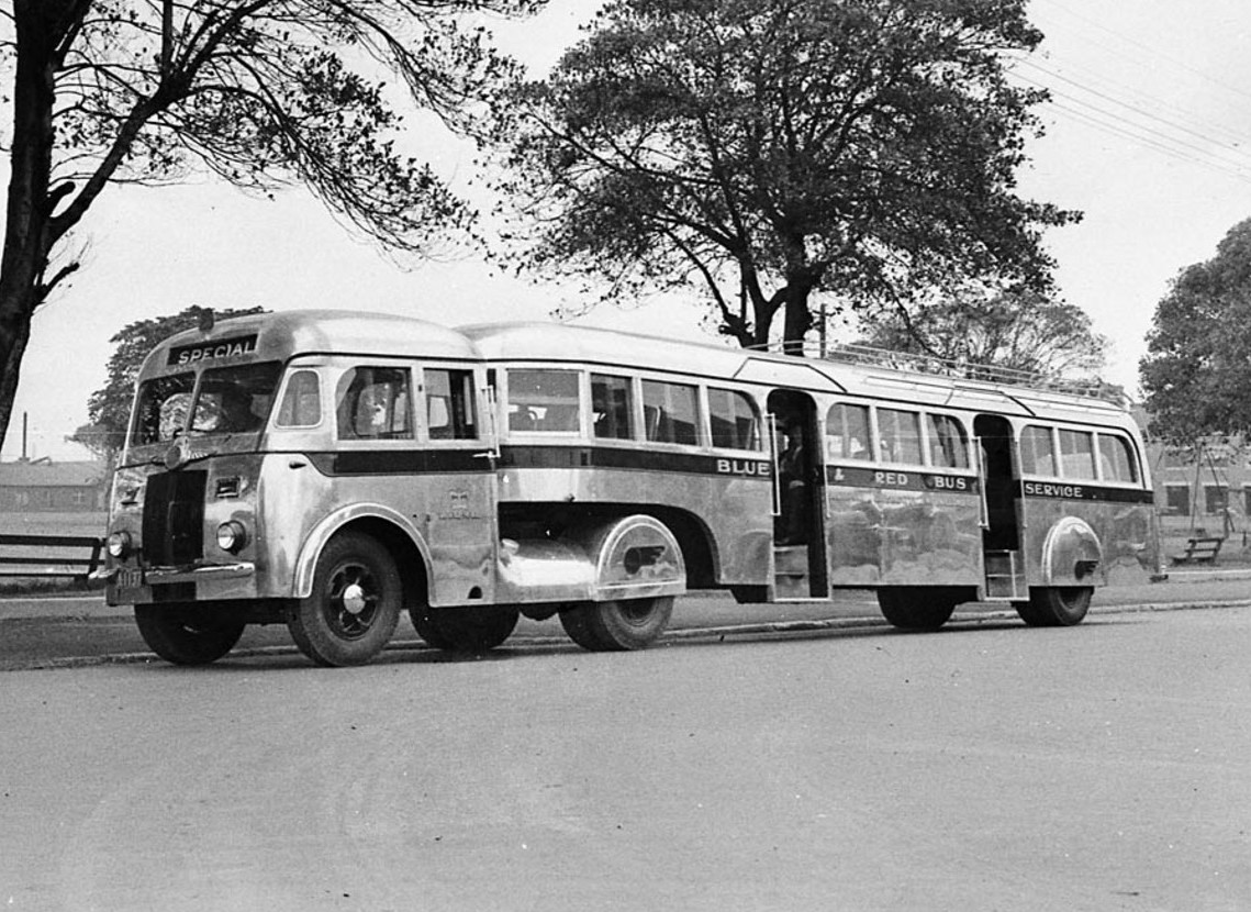 White Trucks